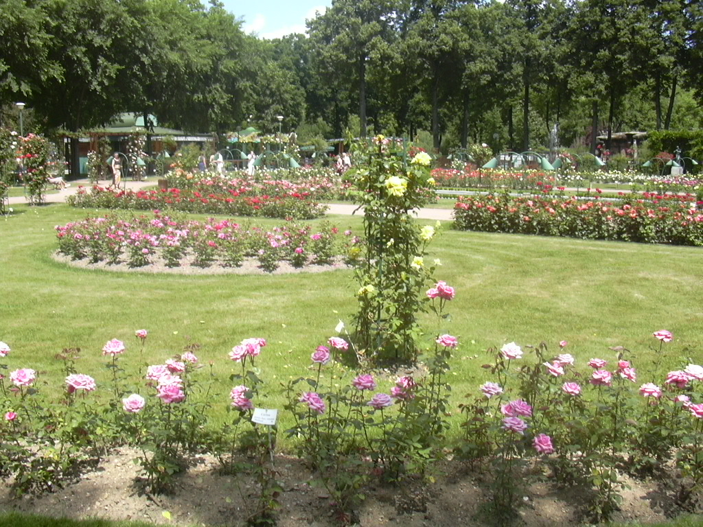 This picture shows rosery in Parc de la Pépinière at Nancy.